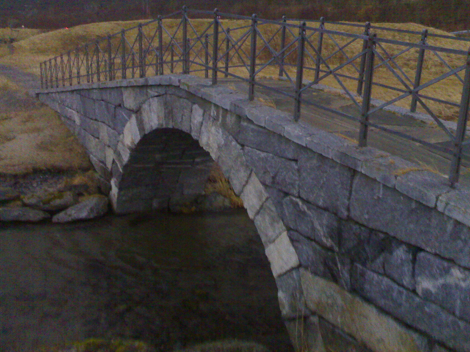 Picture of the bridge to the sandy beach at Storvik, Norway.